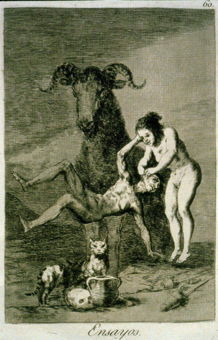 "Los Caprichos / Ensayos (Trials)," etching, aquatint and burin, by the Spanish artist Francisco Goya. 207 mm x 166 mm. Courtesy of the British Museum, London.